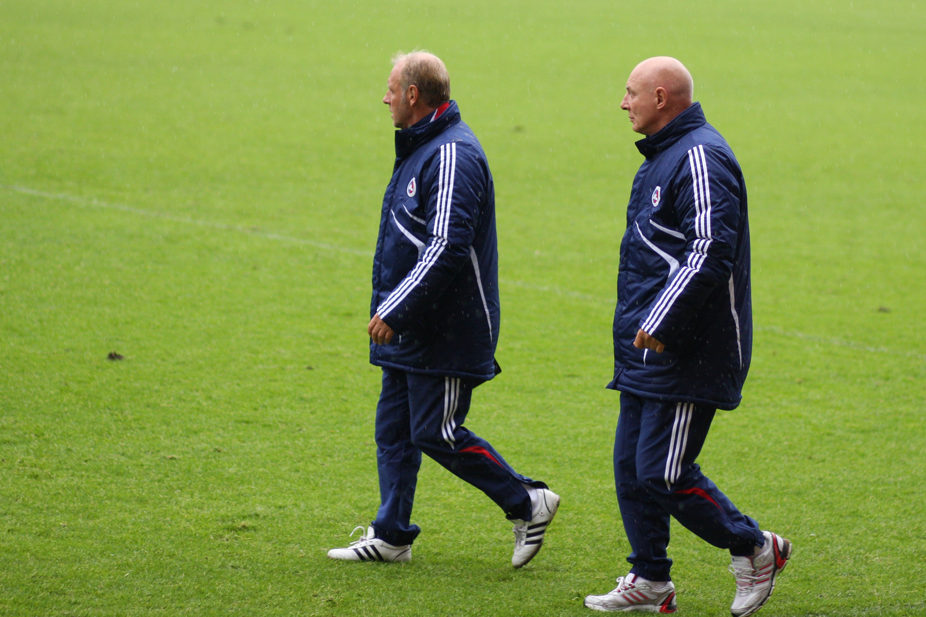 Rüdiger Abramczik and Werner Kasper, football coaches